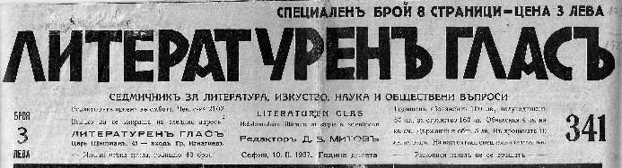 Title of newspaper Literary voice (1928-1944)